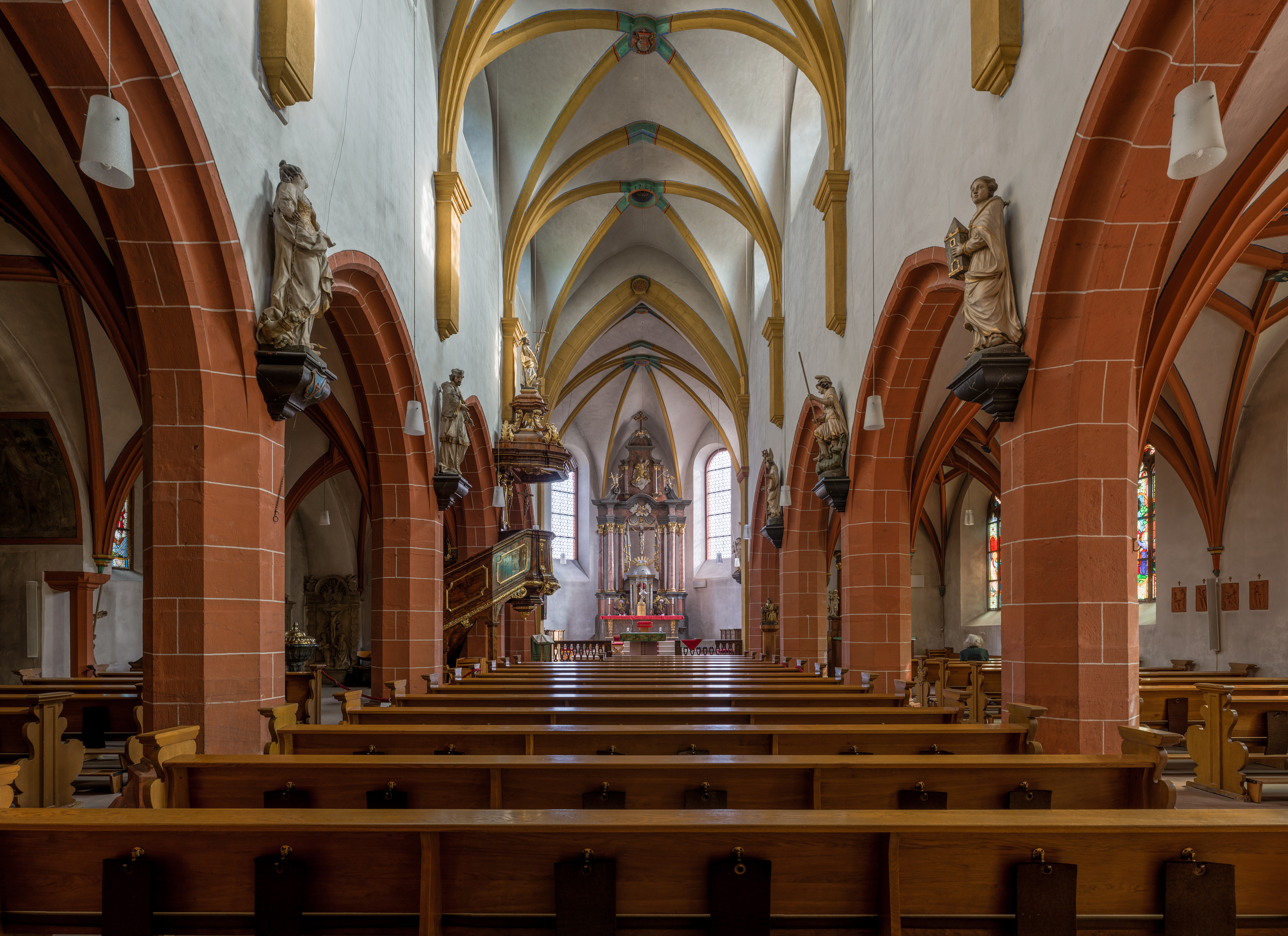 The nave of St. Markus, Erbach